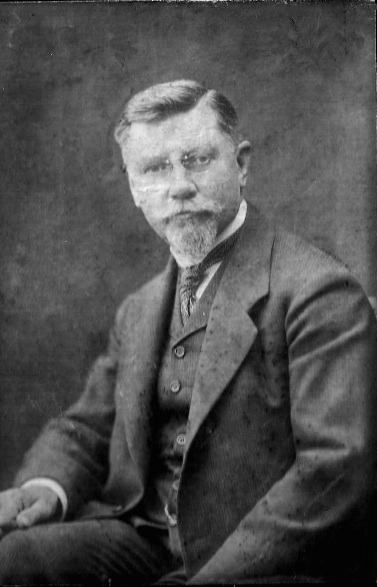 Unknown, Mrs.Johanna Kohlberger family album |month=April|day=3|year=2009